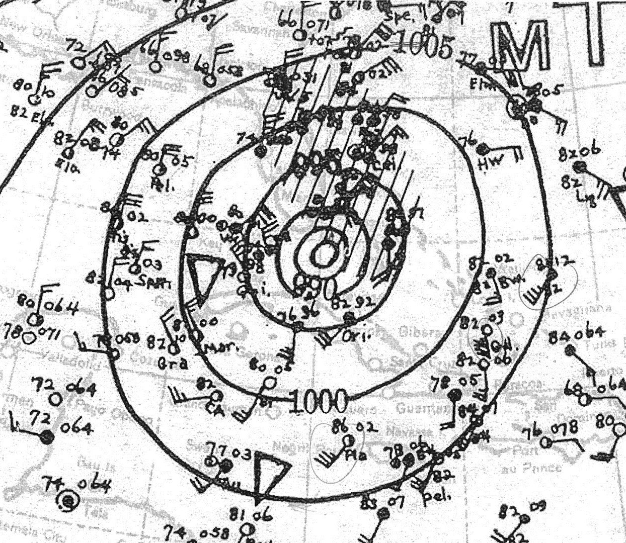 Surface weather analysis of the seventeenth hurricane of the 1933 Atlantic hurricane season. At the time, the tropical cyclone was tracking to the northeast within the Florida Strait and had just intensified into the equivalent of a modern-day Category 3 hurricane.